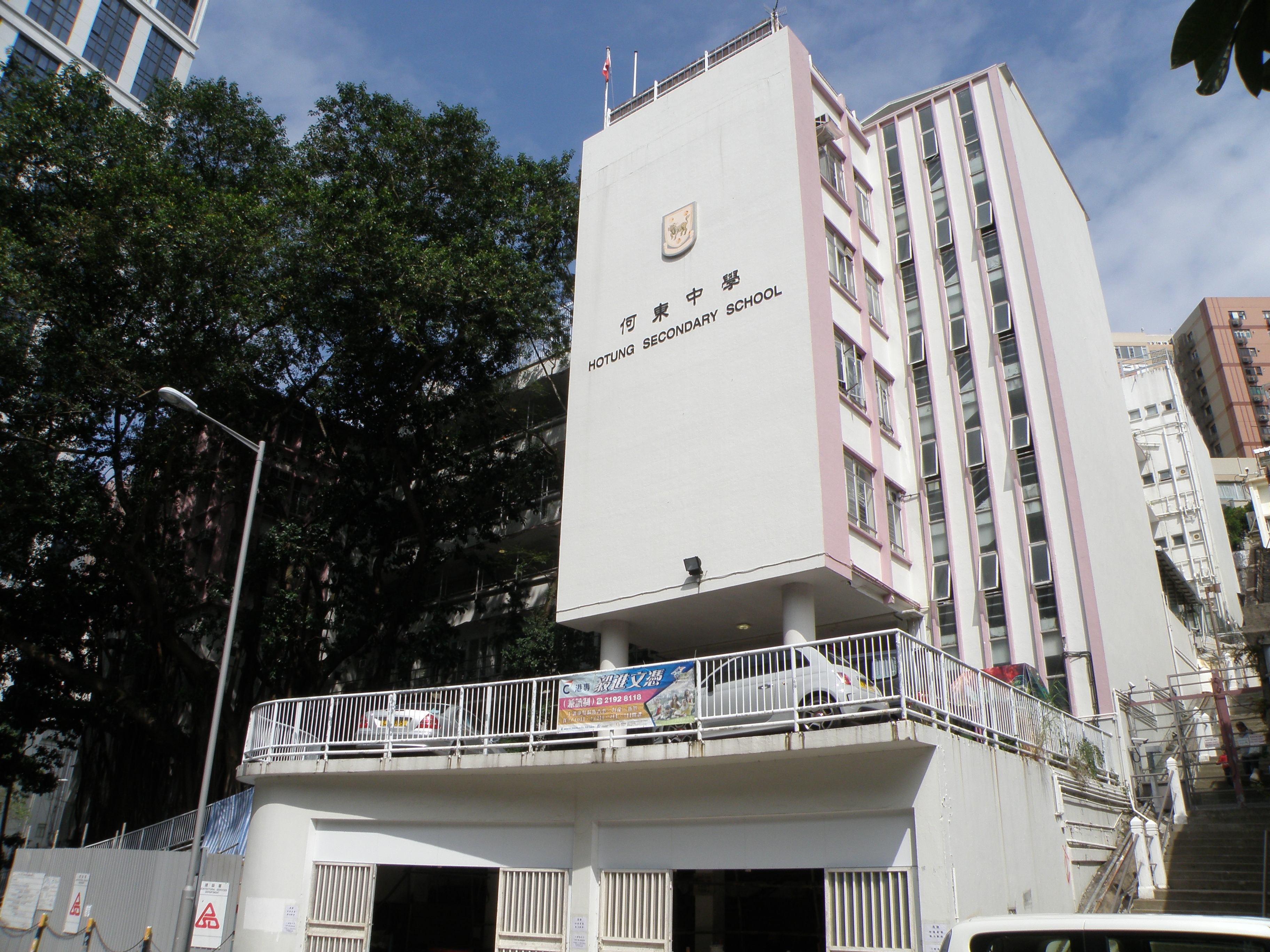 Hotung Secondary School in Causeway Bay, Hong Kong.